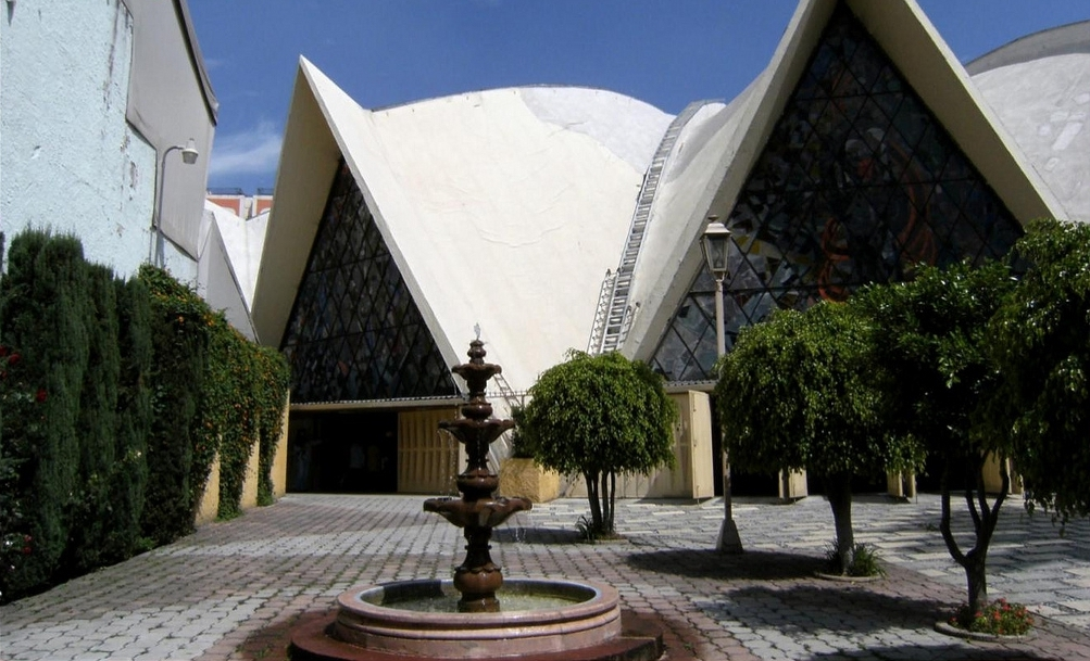 Saint Monica Church, Colonia del Valle, Benito Juarez, Federal District, Mexico